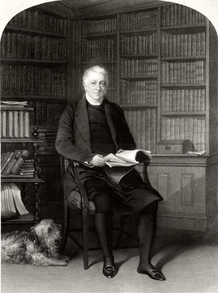 19th century engraving after a painting by R. Thorburn, of Hugh Percy (1784-1856) Bishop of Rochester, then Bishop of Carlisle. The original painter may have been Robert Thorburn (1818-1885). Note: This engraving is more than 100 years old and is out of copyright. It is not possible to copyright an engraving by an unknown author, which is already out of copyright.